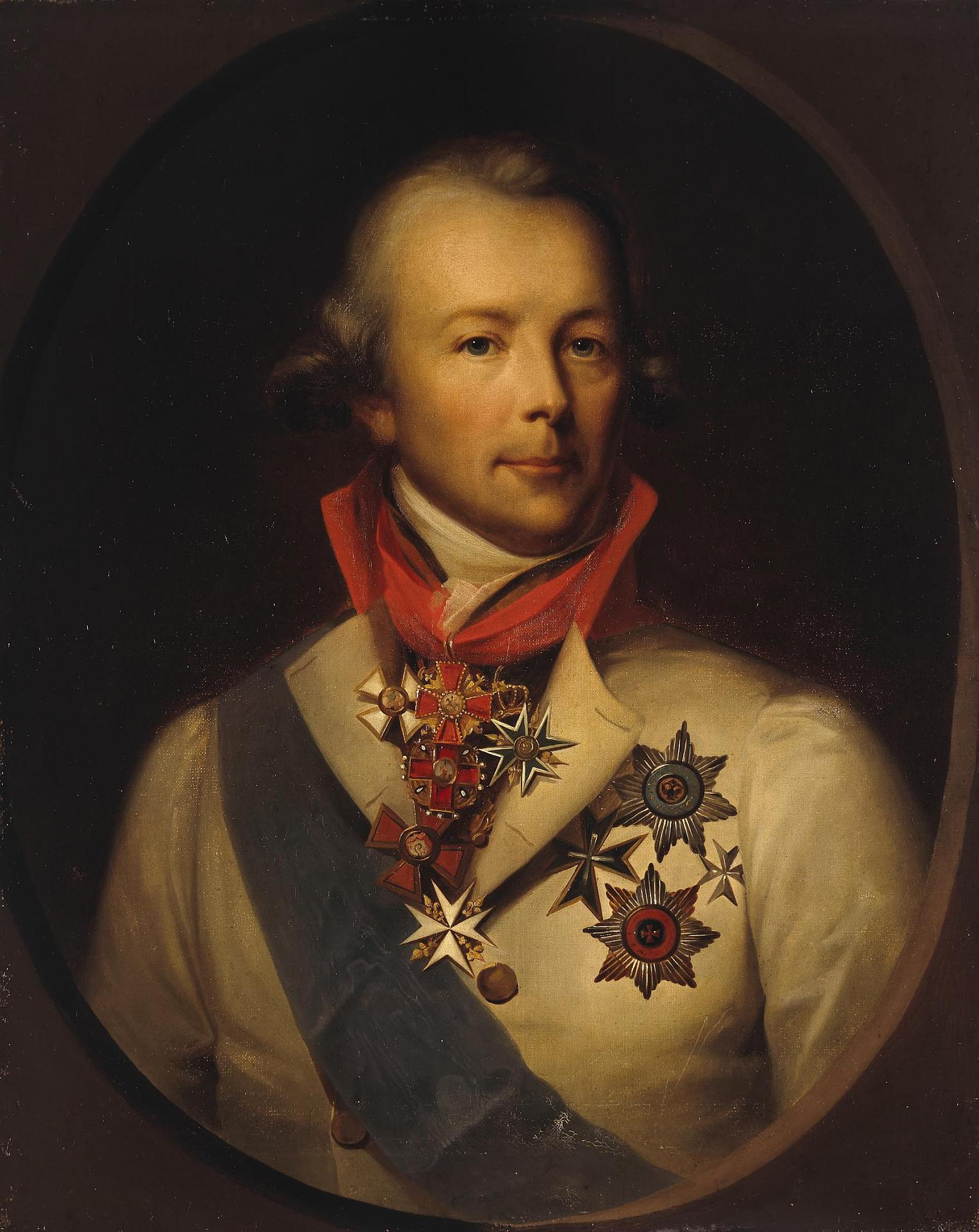 Pyotr Alexeevich Palen (1745-1826)